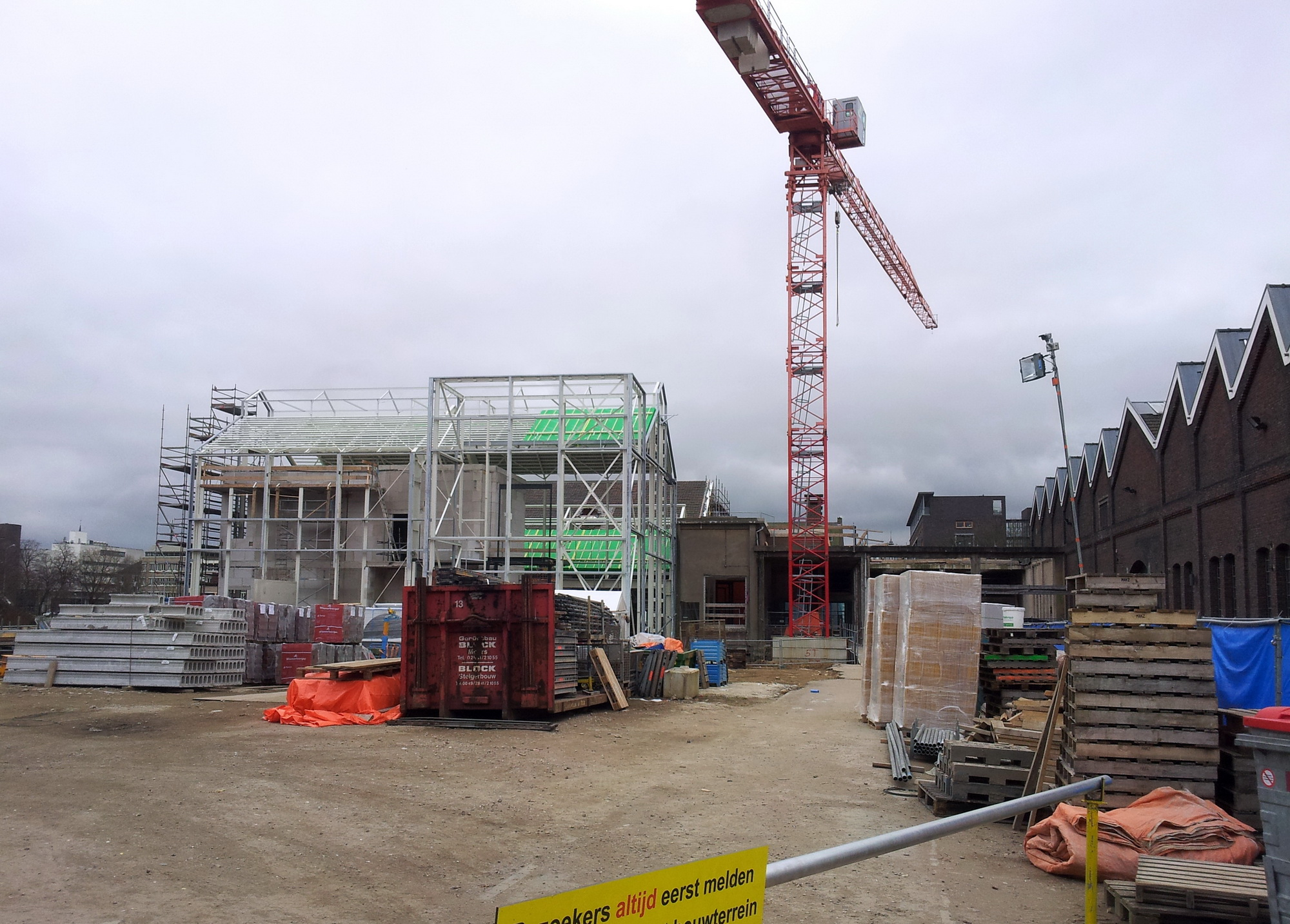 Construction site of Lumière Cinema behind the Timmerfabriek in Maastricht, the Netherlands.